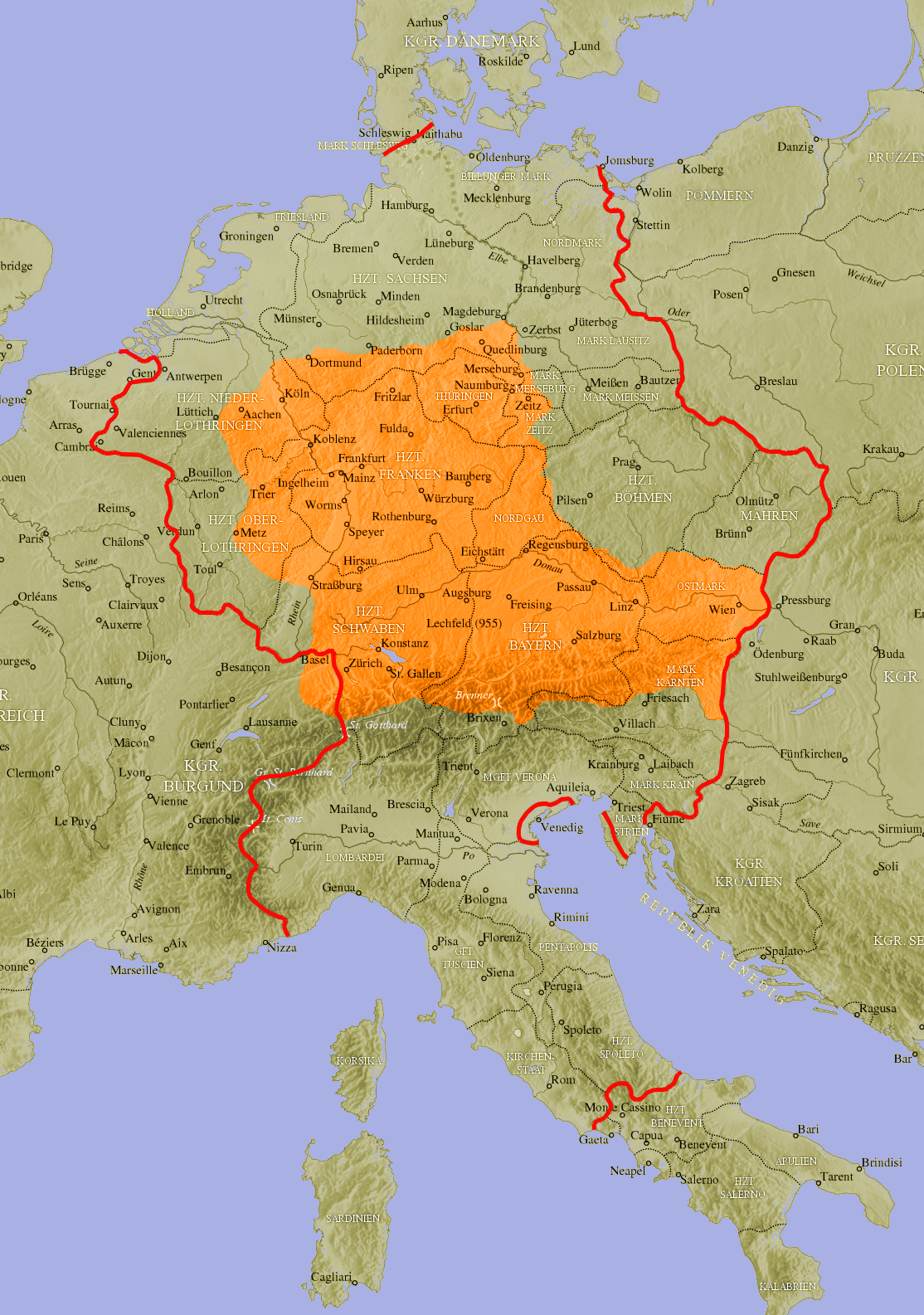 The area in which Old High German was spoken around en:962. Based on: Geschichte der Deutschen Sprache, Volk und Wissen Volkseigener Verlag Berlin 1983 and the historical phases of the Benrath line.